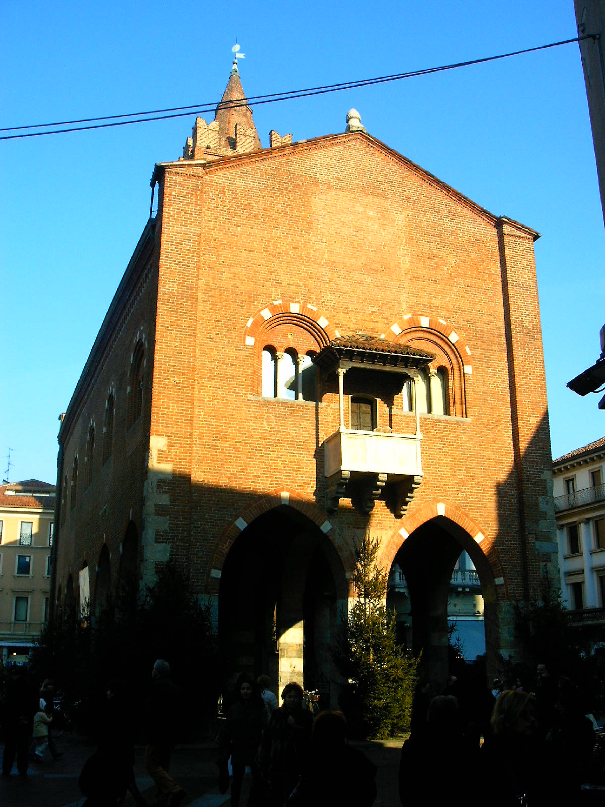 The Arengario of Monza, Italy L'Arengario di Monza